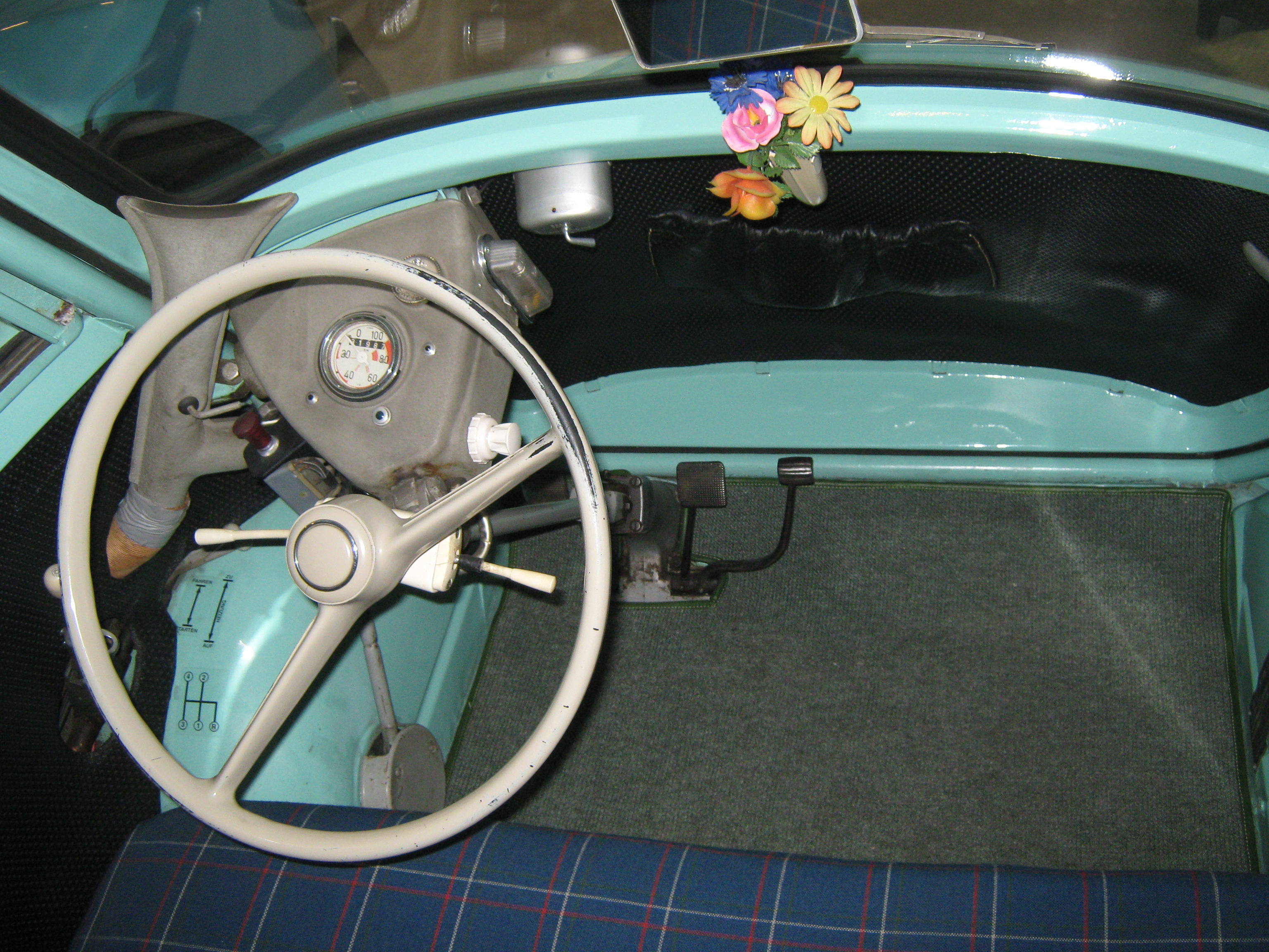 Cockpit of BMW Isetta